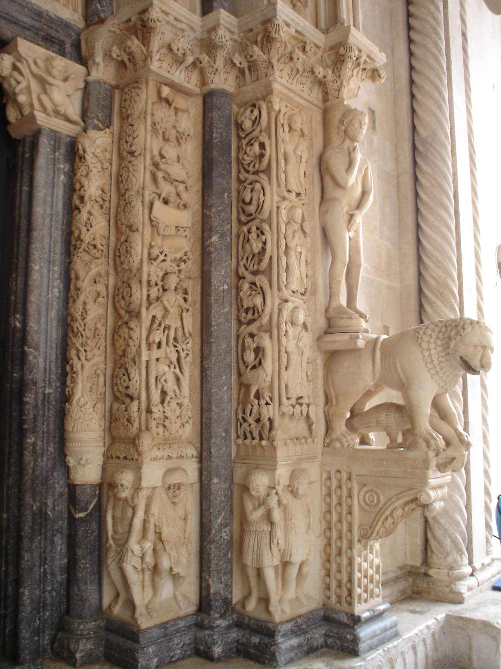 Cathedral of St. Lawrence, Trogir entrance detail (left side)